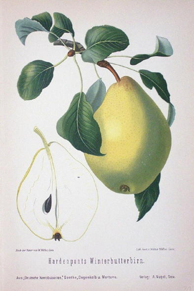 Hardenponts Winterbutterbirn by Rudolf Goethe, Aepfel und Birnen, 1894.